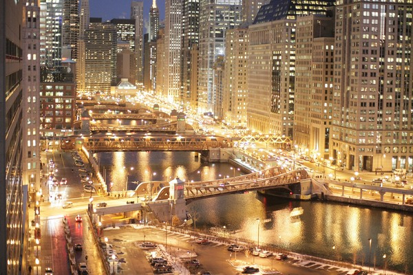 Chicago River at Dusk